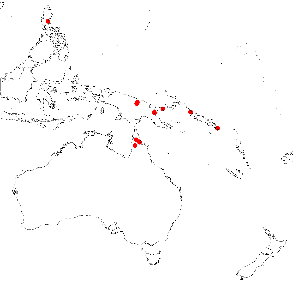 Cecarria obtusifolia (28th December 2018) GBIF Occurrence Download